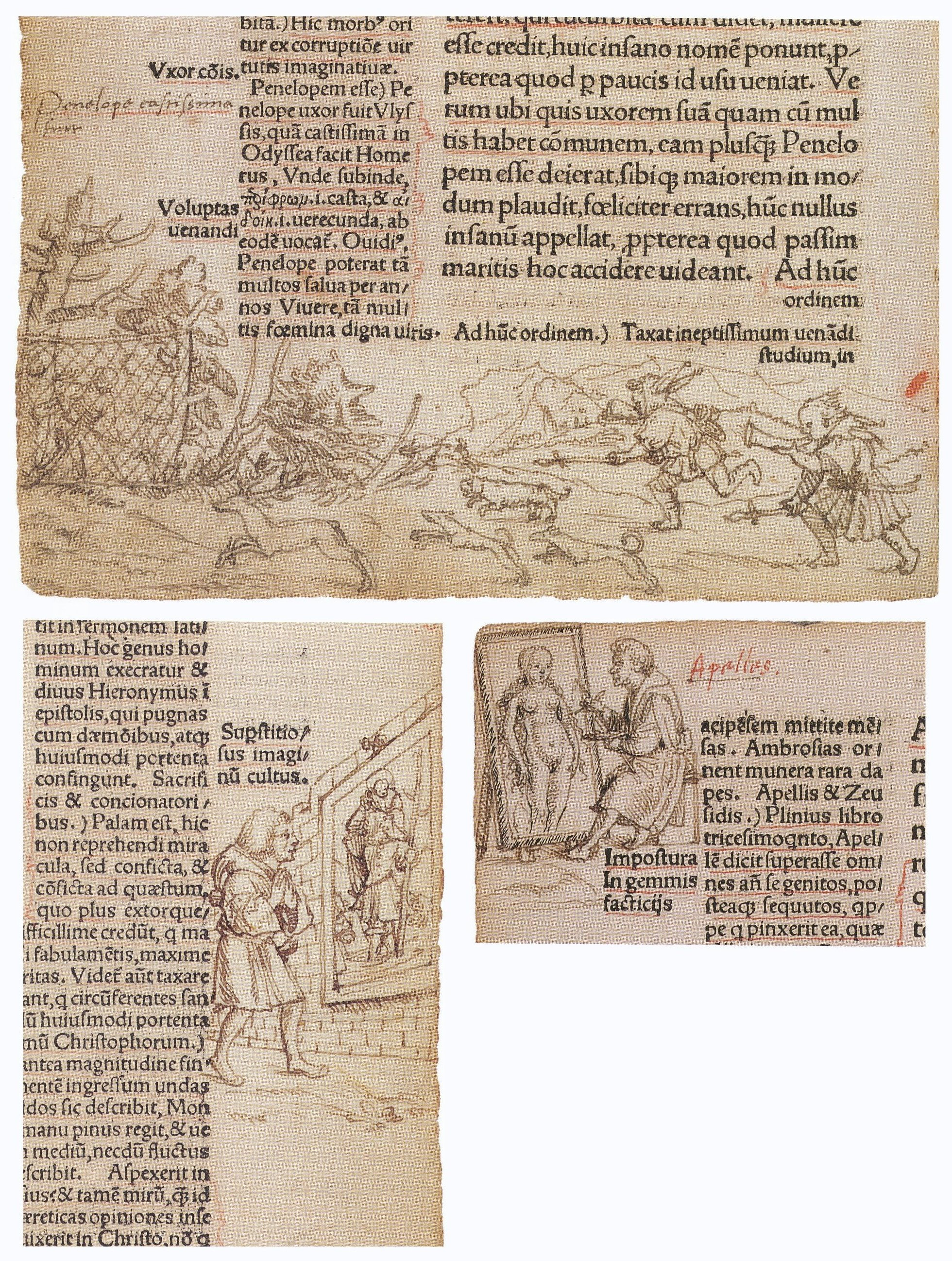 Three Marginal Drawings in a copy of "The Praise of Folly" by Erasmus of Rotterdam. Pen and black ink oxidised to brown, Kunstmuseum Basel. Stag Hunt (no. 24) A Fool Prays to St Christopher (no. 26) Apelles Paints Aphrodite, revised in black by another hand (no. 32) Hans Holbein and his brother, Ambrosius, drew 82 marginal sketches in the copy of The Praise of Folly owned by classical scholar Oswald Myconius, who planned to show the result to the author, his friend Desiderius Erasmus. They include the first works by Hans Holbein to survive intact. Most of the sketches are by Hans Holbein, whose style and left-handed hatching identify him from Ambrosius. References Buck, Stephanie, Hans Holbein, Cologne: Könemann, 1999, ISBN 3829025831, p. 10. Müller, Christian; Stephan Kemperdick; Maryan Ainsworth; et al, Hans Holbein the Younger: The Basel Years, 1515–1532, Munich: Prestel, 2006, ISBN 9783791335803, pp. 146–57.